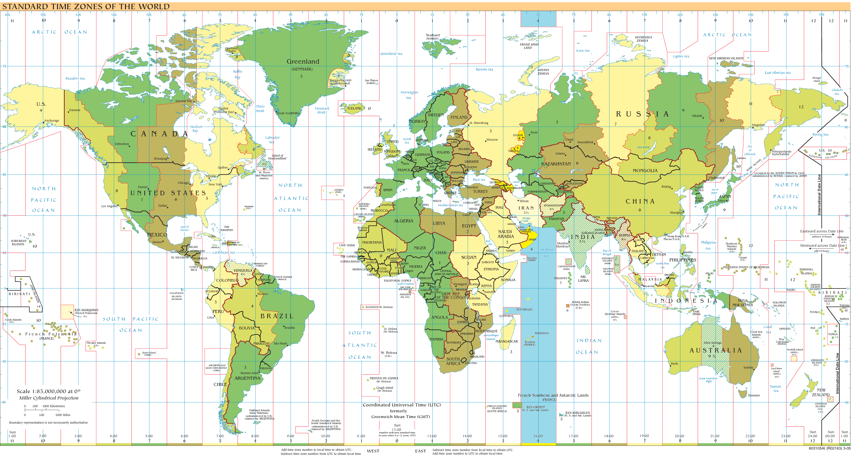 Copy of Timezones2008.png with UTC+4 highlighted Dark blue: UTC+4 during Northern Hemisphere Winter / Southern Summer Orange: UTC+4 during Northern Hemisphere Summer / Southern Winter Yellow: UTC+4 all year round Light blue: UTC+4 sea areas